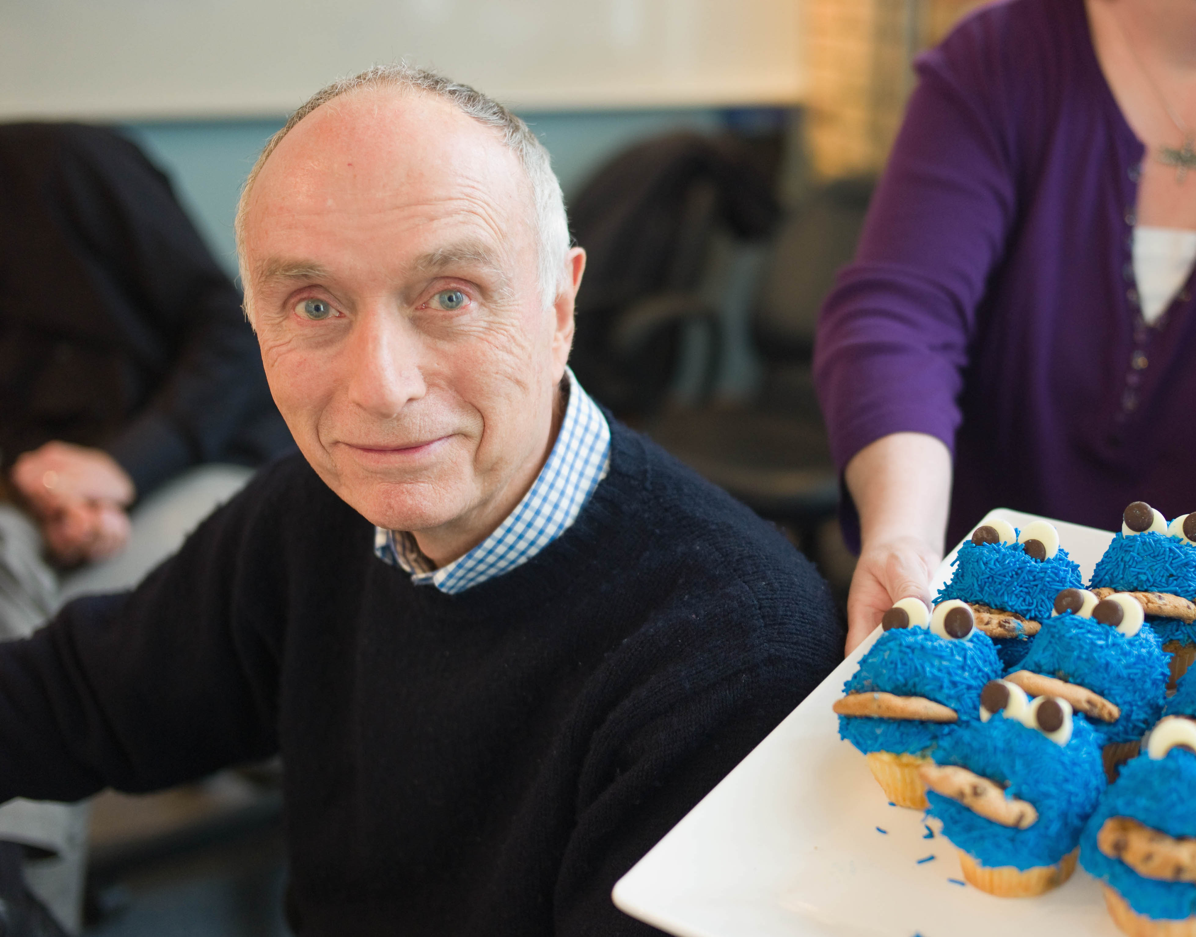 Lloyd Morrisett and his birthday cupcakes